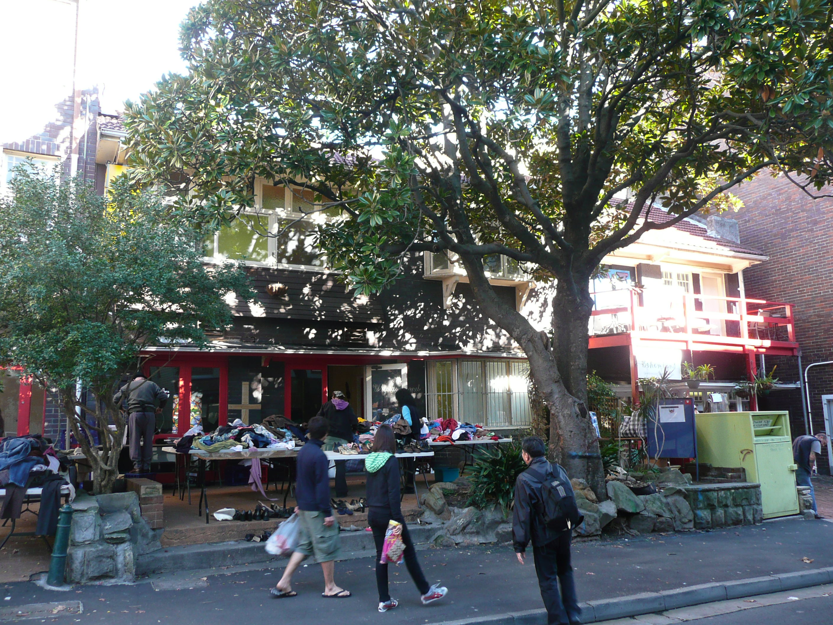 Wayside Chapel, Potts Point, Sydney, where Richard Seary did Crisis Centre counselling in 1977-78